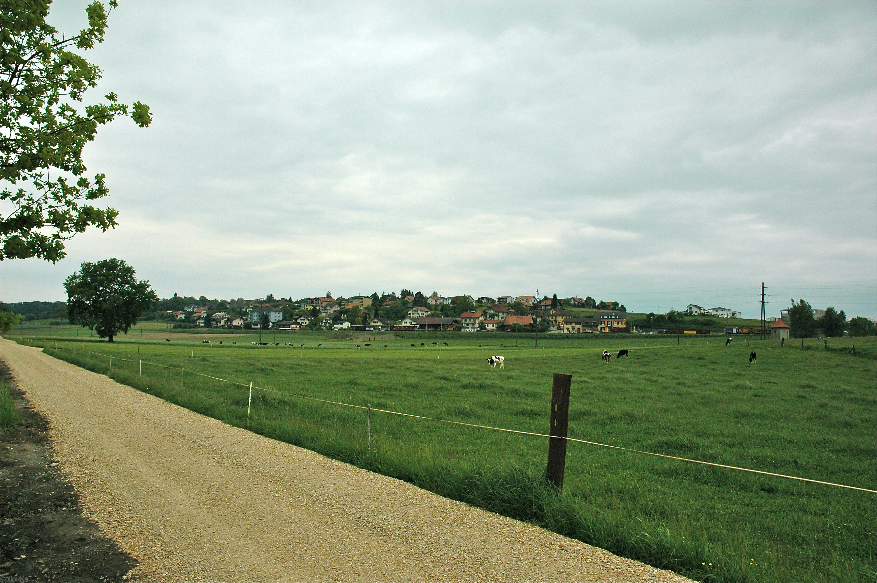 View of "CRESSIER" Switzerland